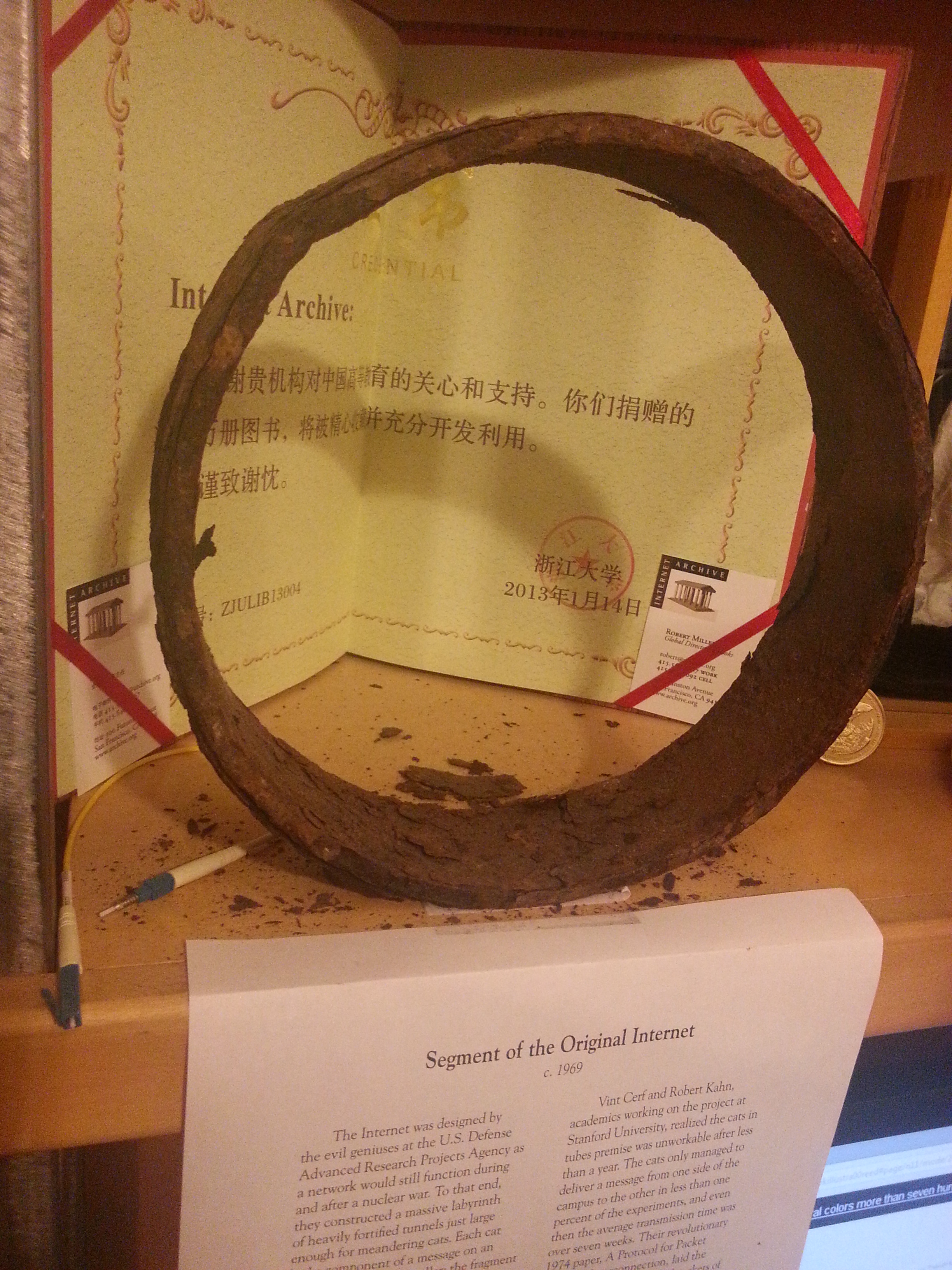 Segment of the original tube of the Internet, c. 1969. On display at the Internet Archive